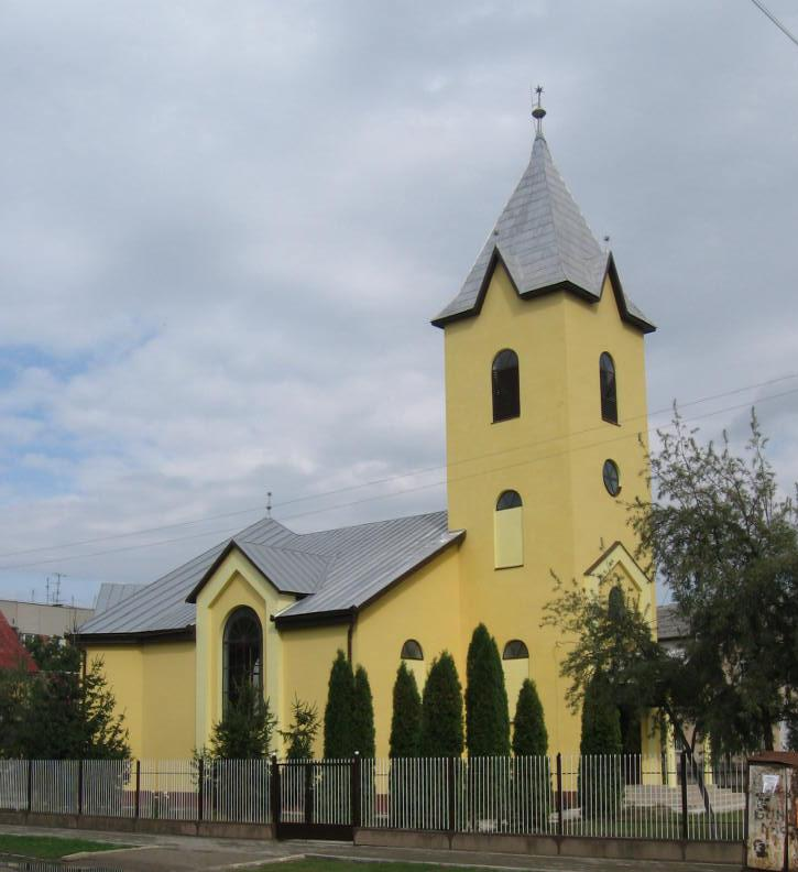 Csapi református templom 2007 / Chop_church of reformed_2007